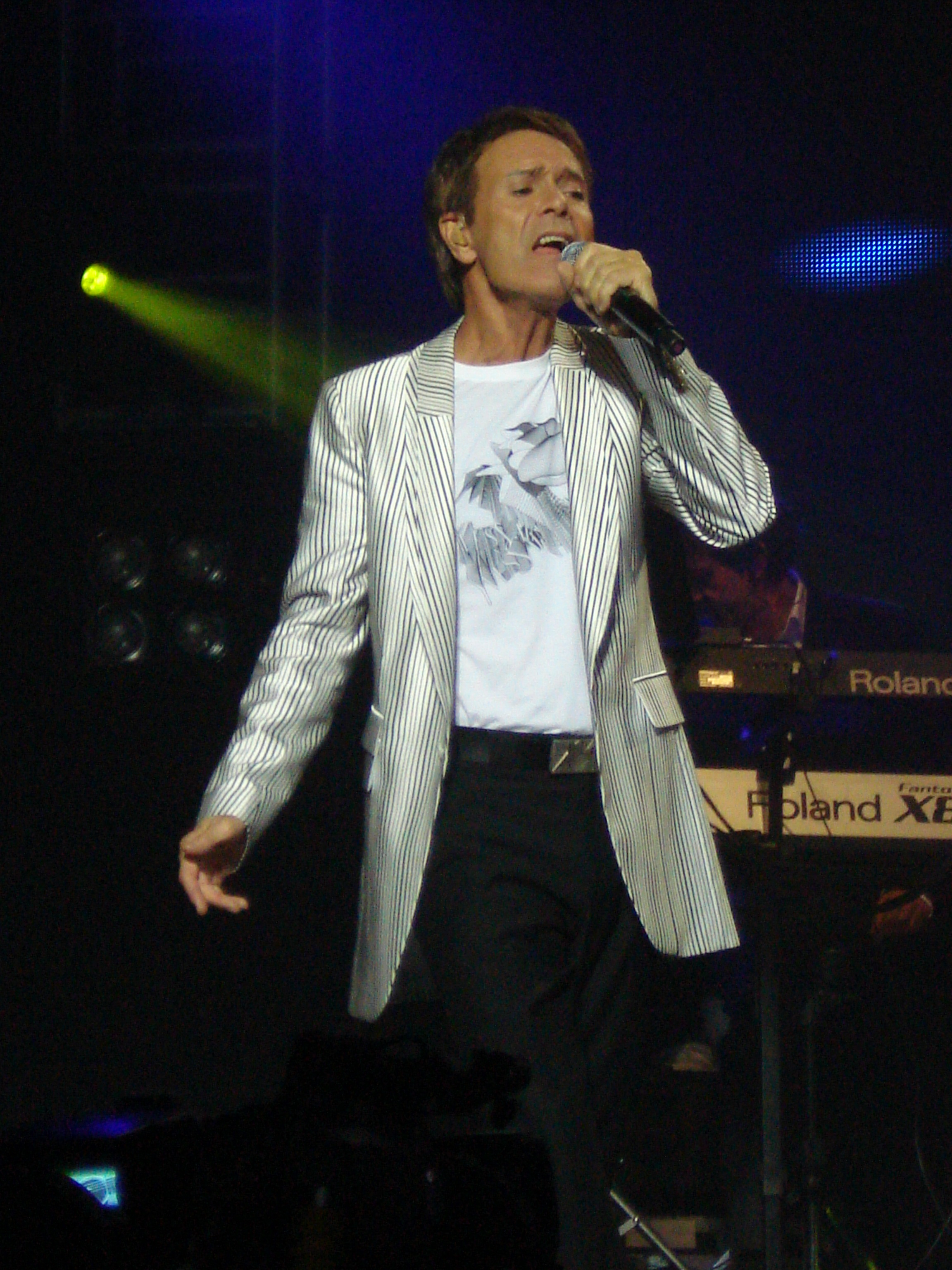 Cliff Richard in concert 2009